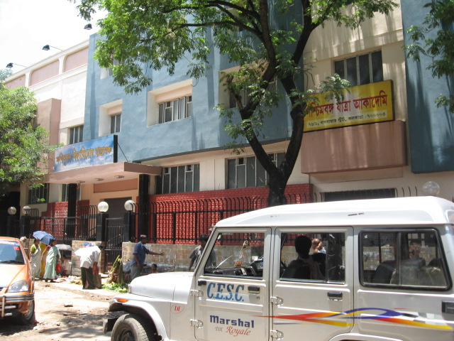 West Bengal Jatra Akademi auditorium, Bagbazar Street, Kolkata